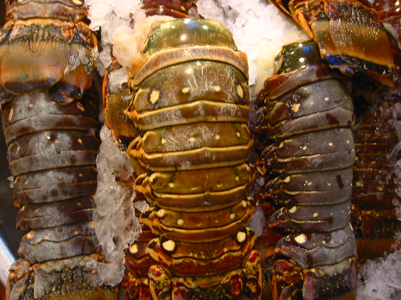 Lobster tails in a market, Seattle, USA